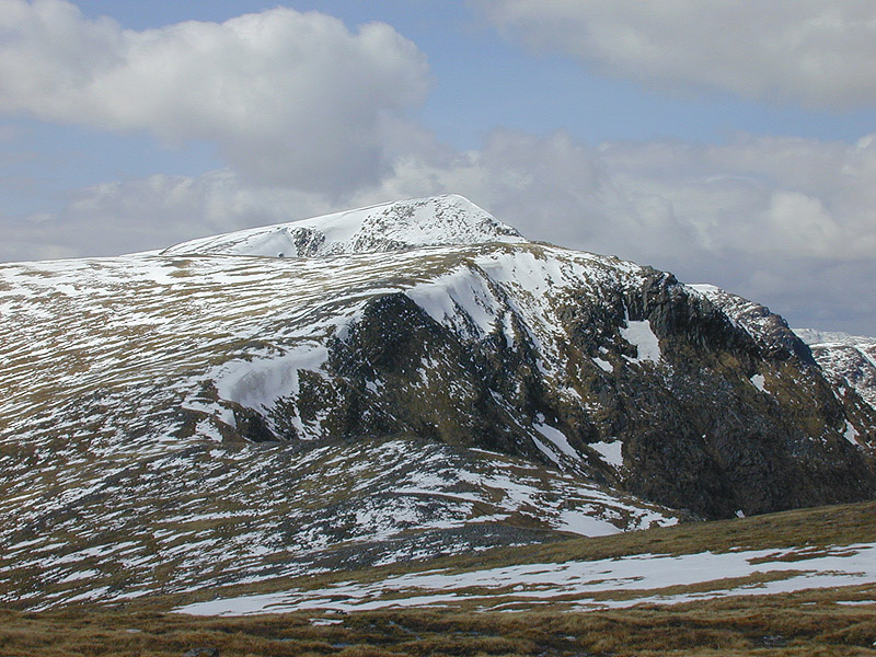 Sgùrr nan Conbhairean seen from Carn Ghluasaid With the summit rising behind its nearer outlier of Creag a' Chaorainn.